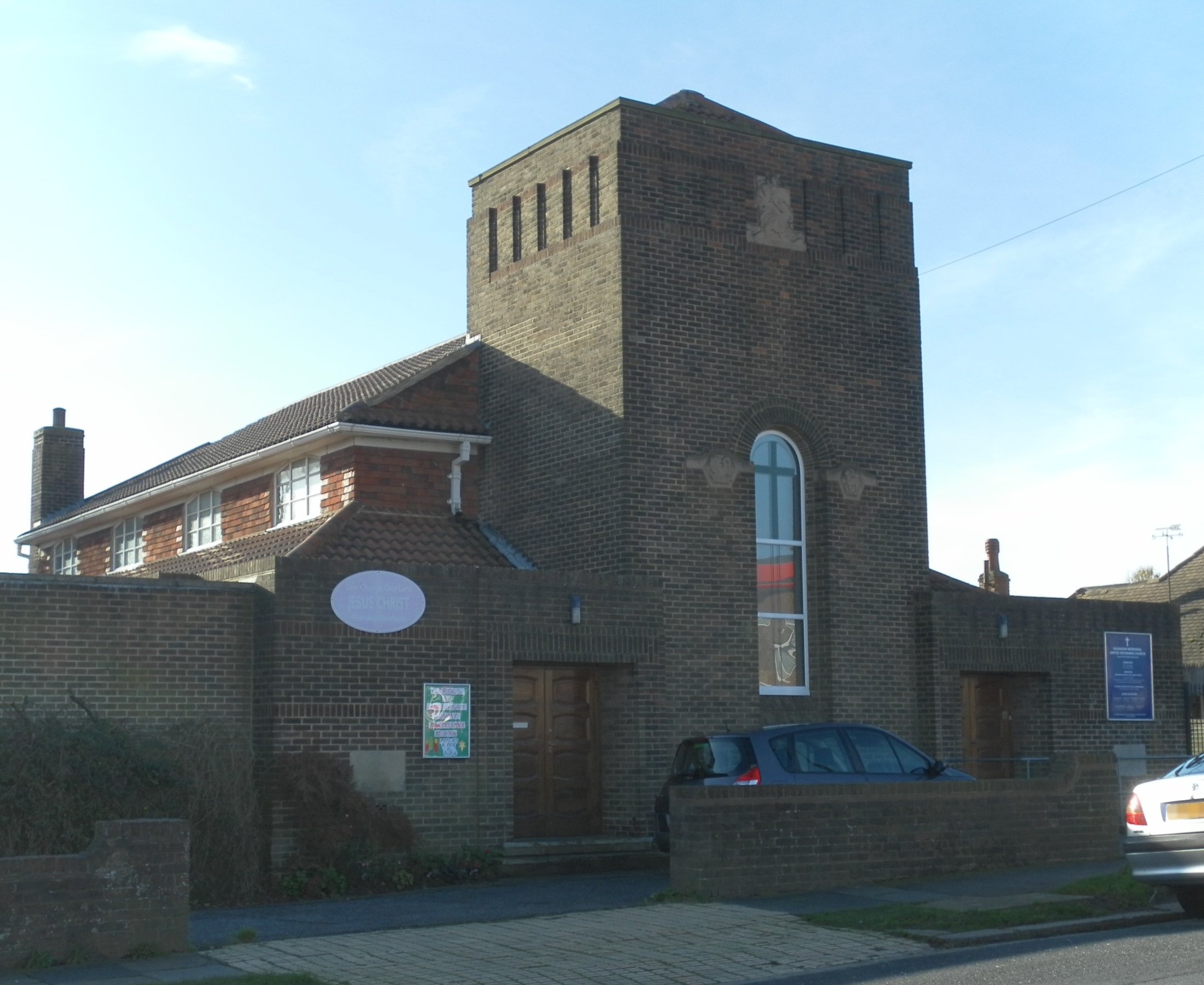 Hounsom Memorial United Reformed Church, Nevill Avenue, Hangleton, City of Brighton and Hove, England. A United Reformed church in the Hangleton area of Hove, designed by John Leopold Denman and opened in 1938.